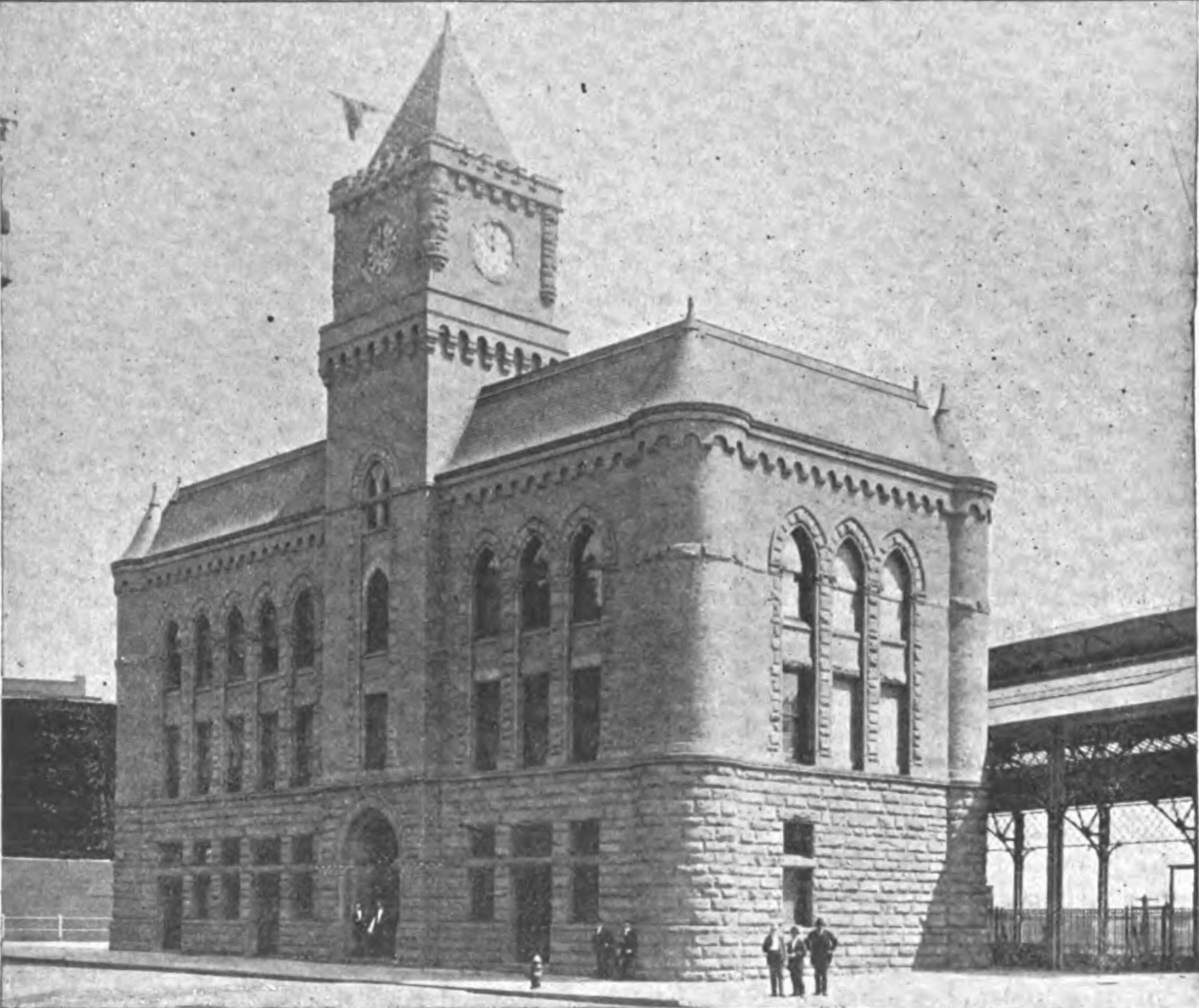 The passenger depot of the Cleveland, Terminal and Valley Railway (formerly the Valley Railway) at the intersection of Columbus Road, Champlain Avenue (now demolished), and Canal Road in Cleveland, Ohio, in the United States. The passenger depot began construction in September 1897, and was designed by local structural engineer A. Lincoln Hyde and architect William Stillman Dutton in a modified Gothic Revival style. The structure was 100 feet (30 m) long and 43 feet (13 m) deep and three stories high. The baggage room on the lower level. At the main entrance on the first floor was a vestibule and lobby. Men's and women's waiting rooms were located on either side of the lobby.The second floor housed the CT&V's corporate headquarters, the third floor contained the railway's engineering and telegraphy offices, and the attic was used for records storage. The 700-foot (210 m) long train shed behind the new station was only the second of its kind erected in the United States. It consisted of two levels—one for the receiving of incoming and outgoing passenger traffic, and the other for the making up of trains and the loading of special trains.